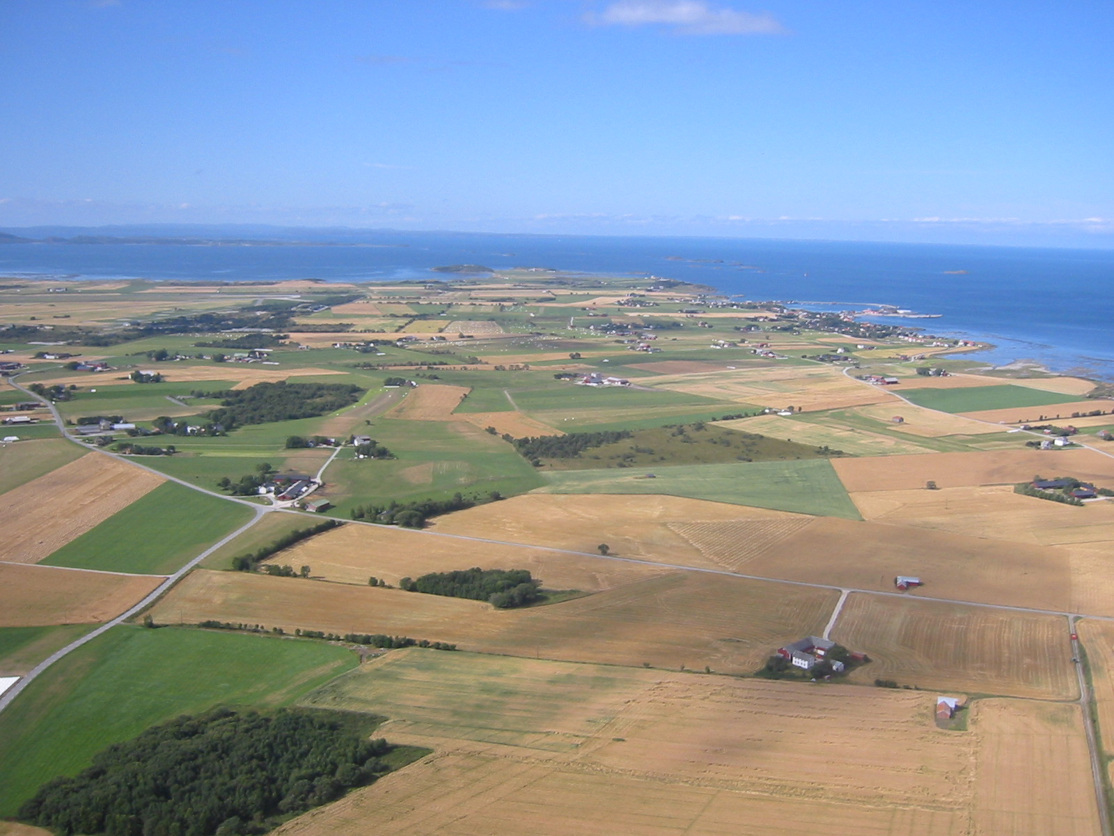 Landscape of Ørland municipality, Norway. Seen from east-south-east; with Ryggen, Rønne, Uthaug and Hoøya